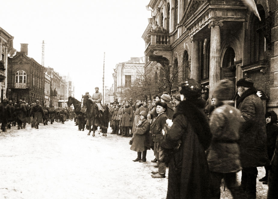 5th Legions' Infantry Regiment in Dyneburg (Latvia), January 1920, Polish-Soviet war